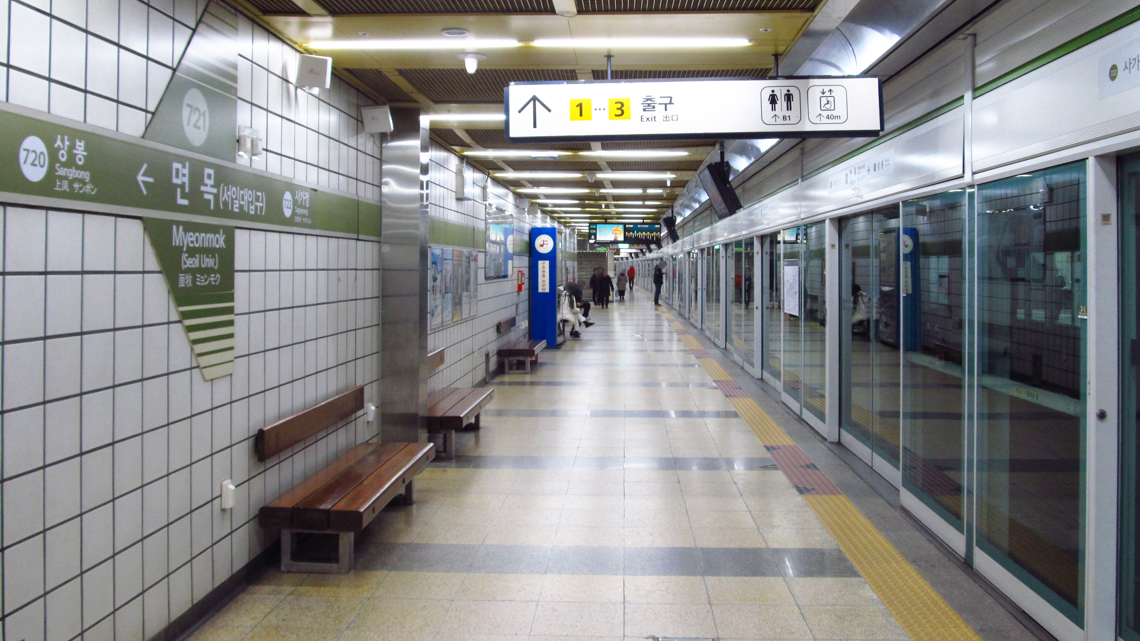 The platform at Myeonmok Station on Seoul Subway Line 7 in Jungnang-gu, Seoul, Republic of Korea(South Korea)